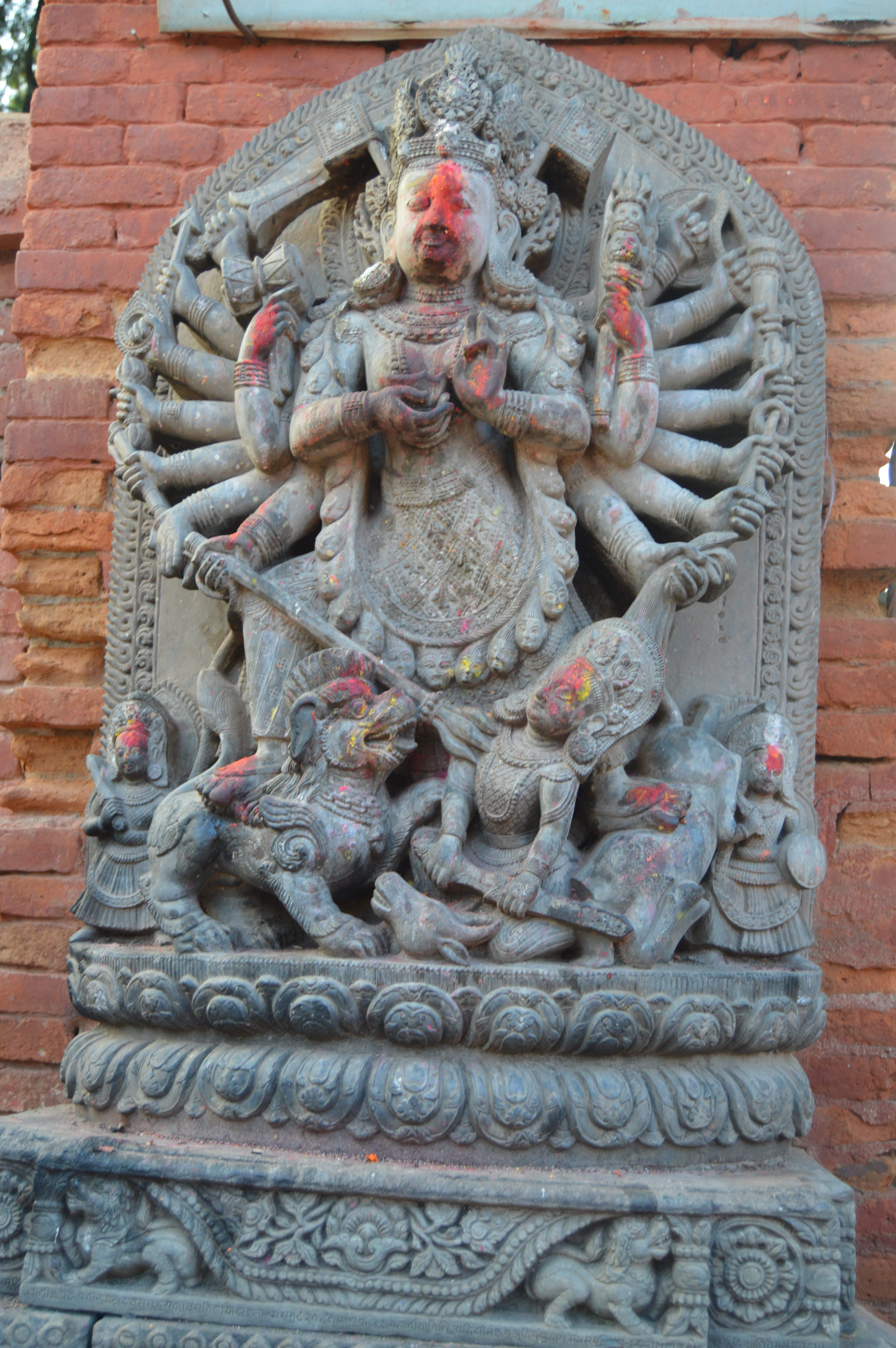 Bhaktapur Darbar